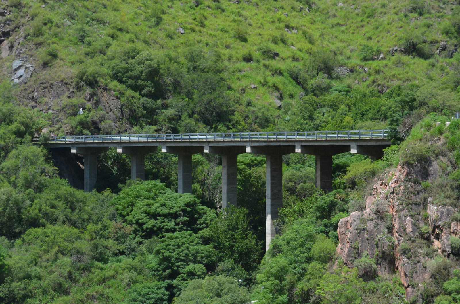 Road E-55, Province of Córdoba, Argentina. Near San Roque Lake.